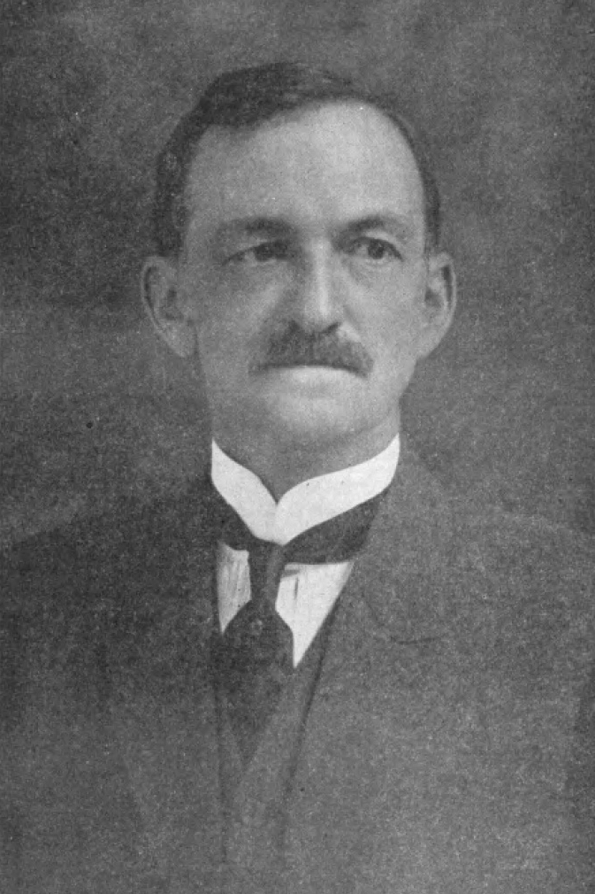 Picture of Prof. S.A. Weltmer taken from the book Realisation 1912 from Earnest Weltmer (oldest son for S.A.W.)